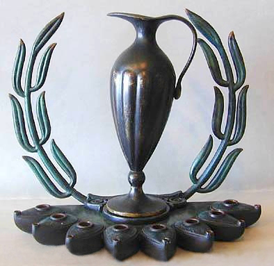 A "Laurel Branch" — oil-burning Hanukkah menorah, c. 1948. By Maurice Ascalon, and manufactured by his Pal-Bell Company in Tel Aviv, Israel.